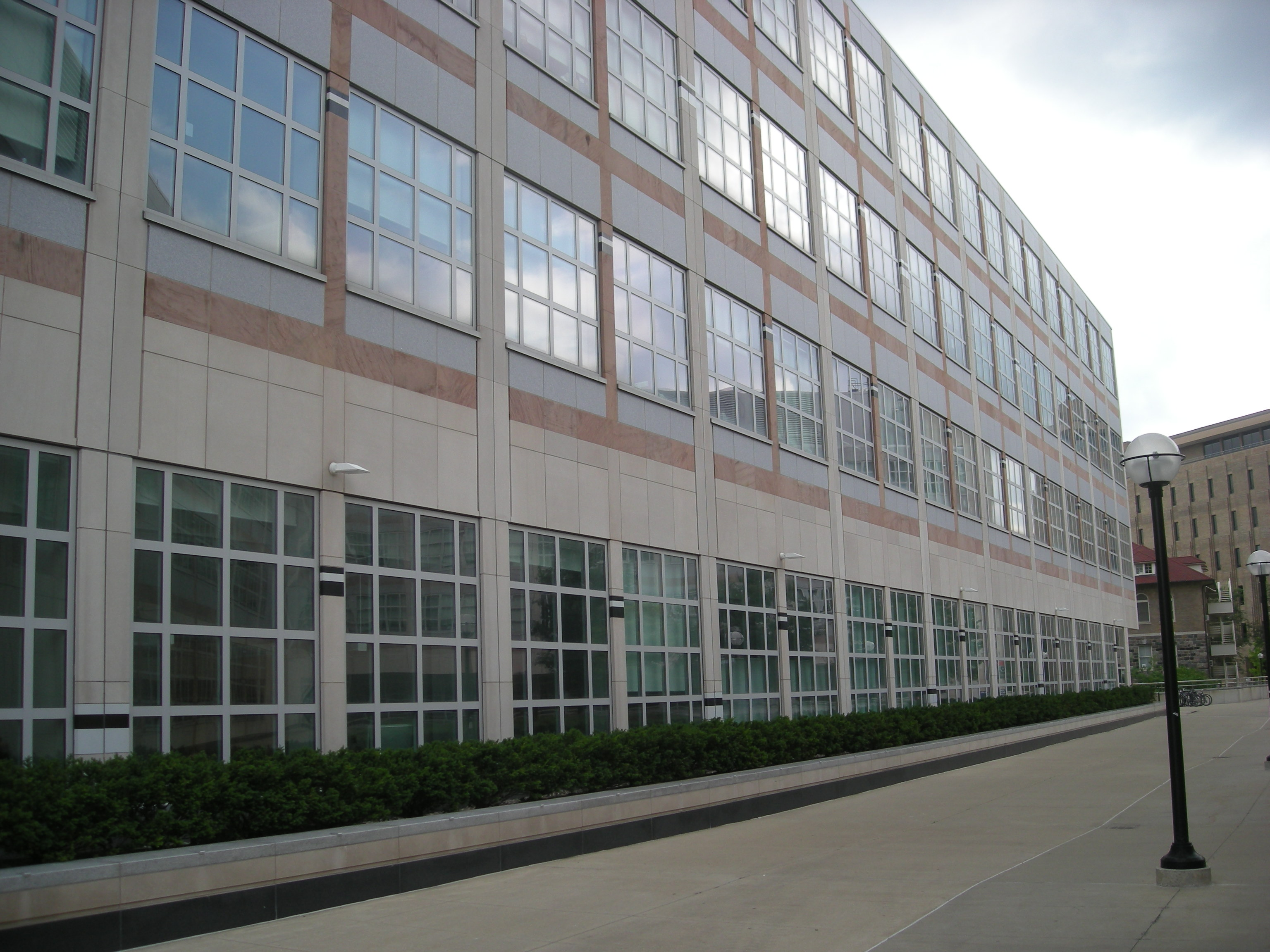 The Life Sciences Institute on the central campus of the University of Michigan in Ann Arbor, Michigan (United States).